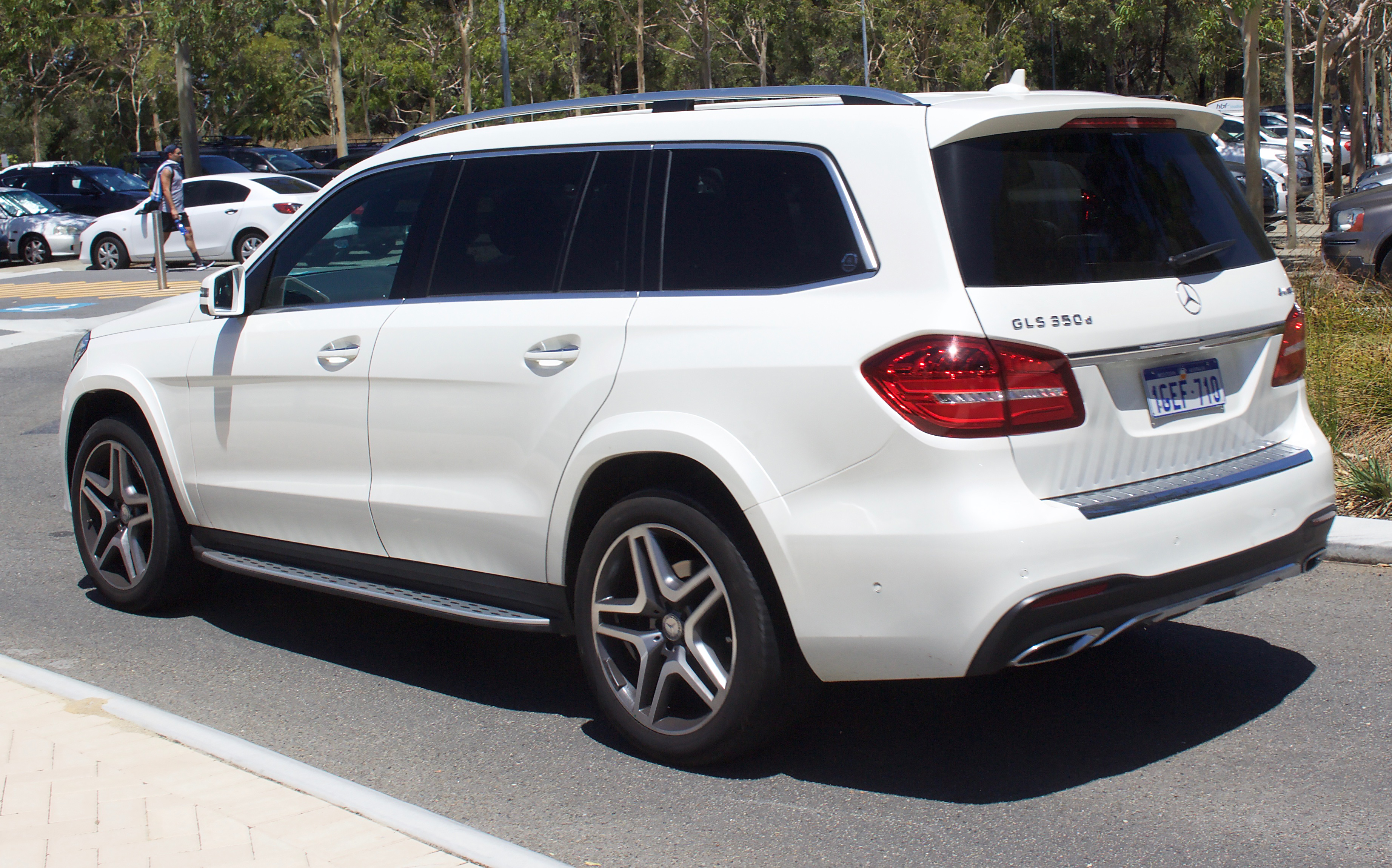 2016 Mercedes-Benz GLS 350d (X 166) 4MATIC wagon. Photographed in Mount Claremont, Western Australia, Australia.